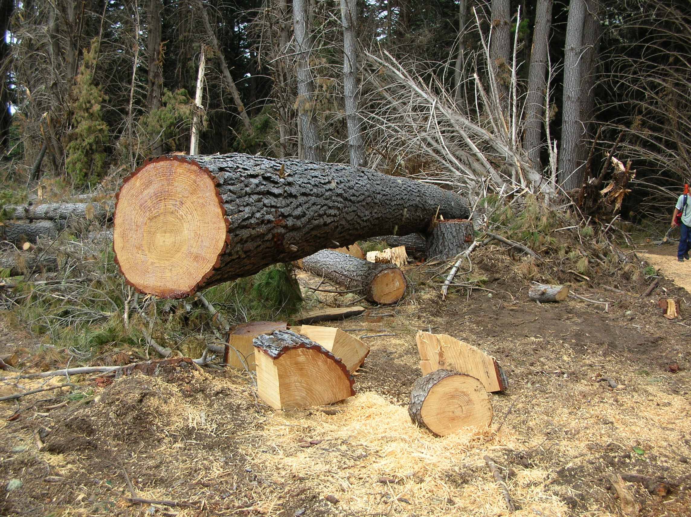 Pinus sp., probably but not definitely P. radiata Cupressus macrocarpa (cut tree). Location: Maui, Polipoli